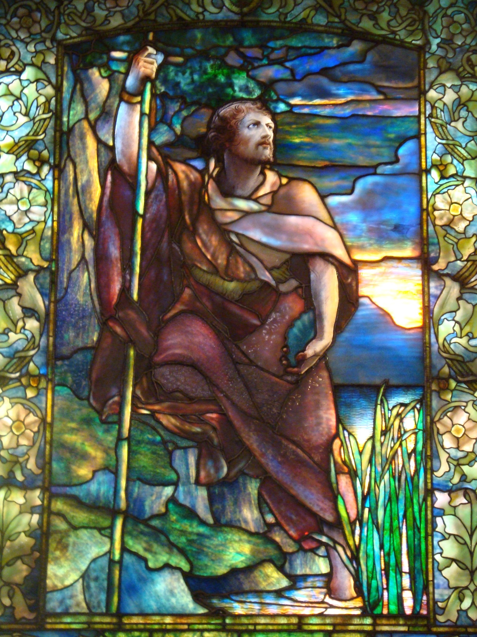 Detail of stained glass window created by Louis Comfort Tiffany in Arlington Street Church (Boston) depicting John the Baptist. March 2009 photo by John Stephen Dwyer